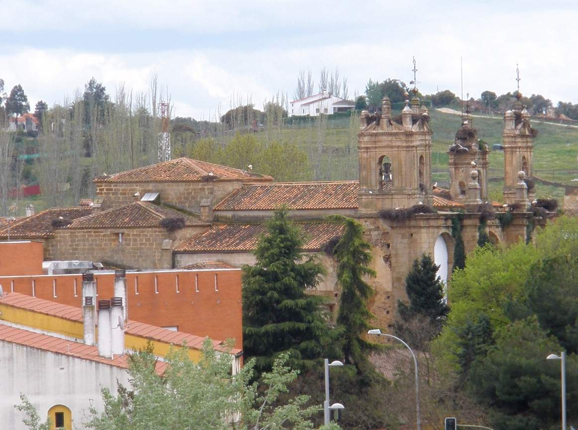 Convent of San Francisco el Real (Cáceres)